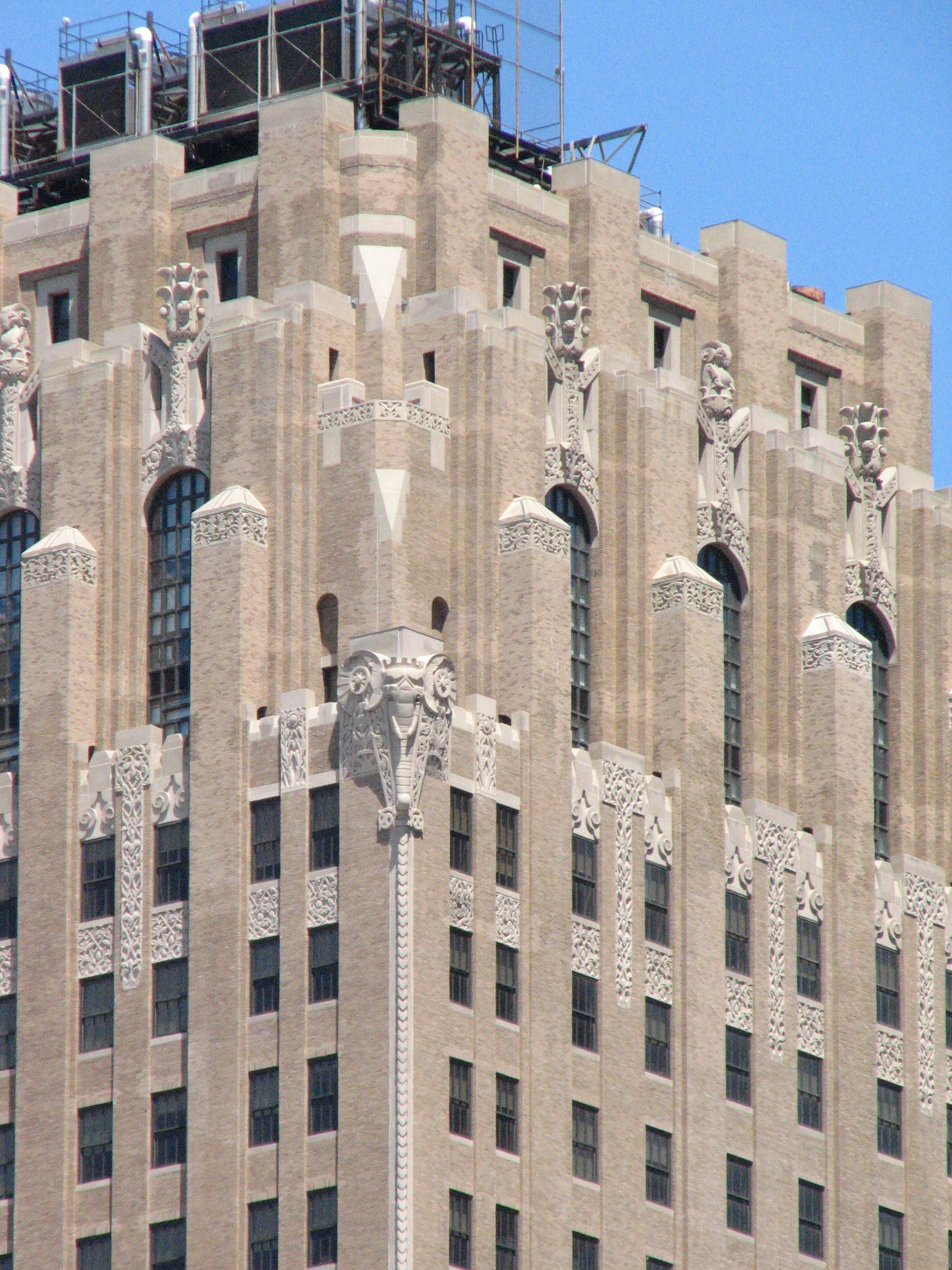 The Verizon Building took much damage from the collapse of the towers and 7 World Trade but has since been restored.